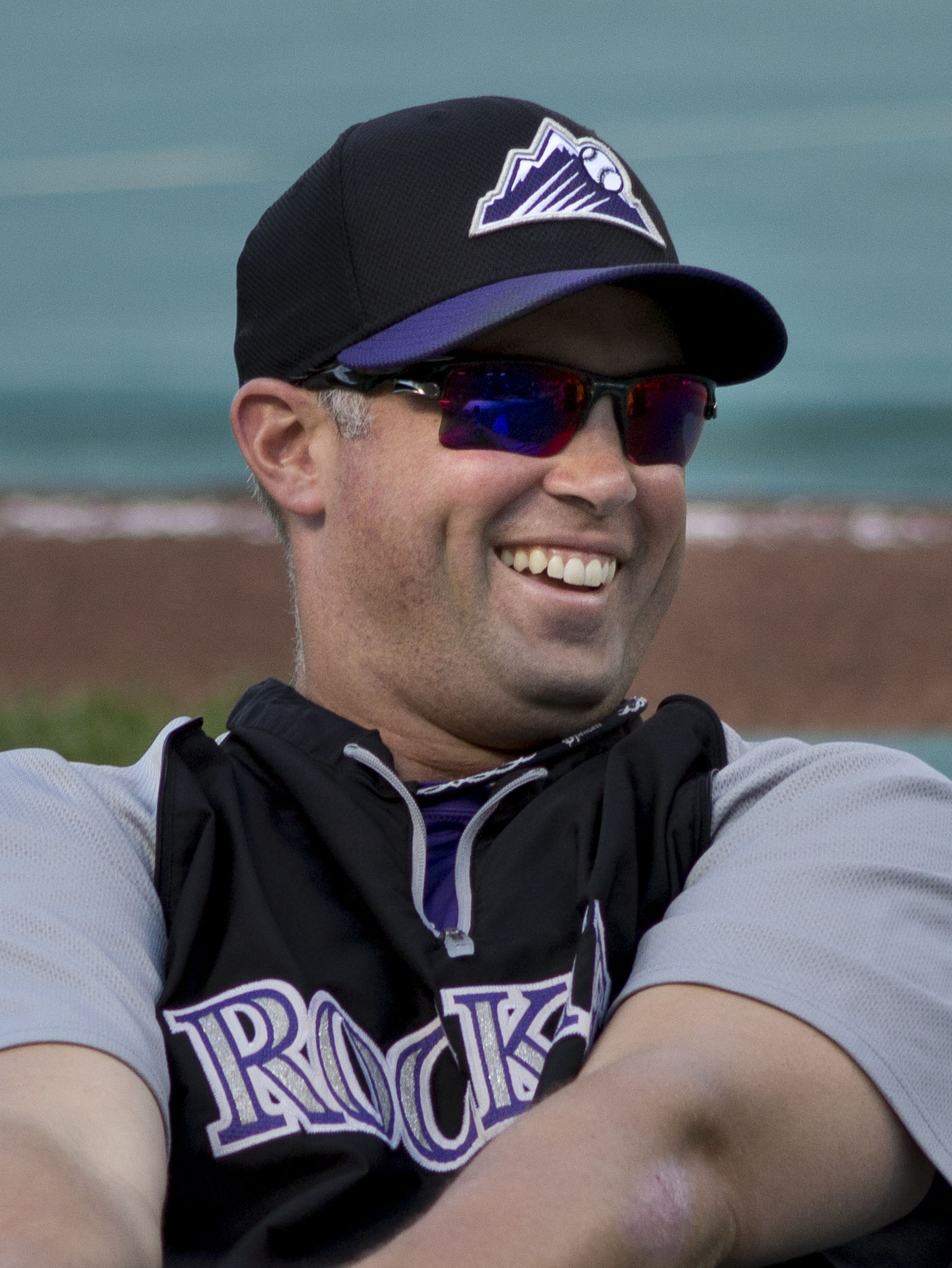 Colorado Rockies at Baltimore Orioles August 17, 2013